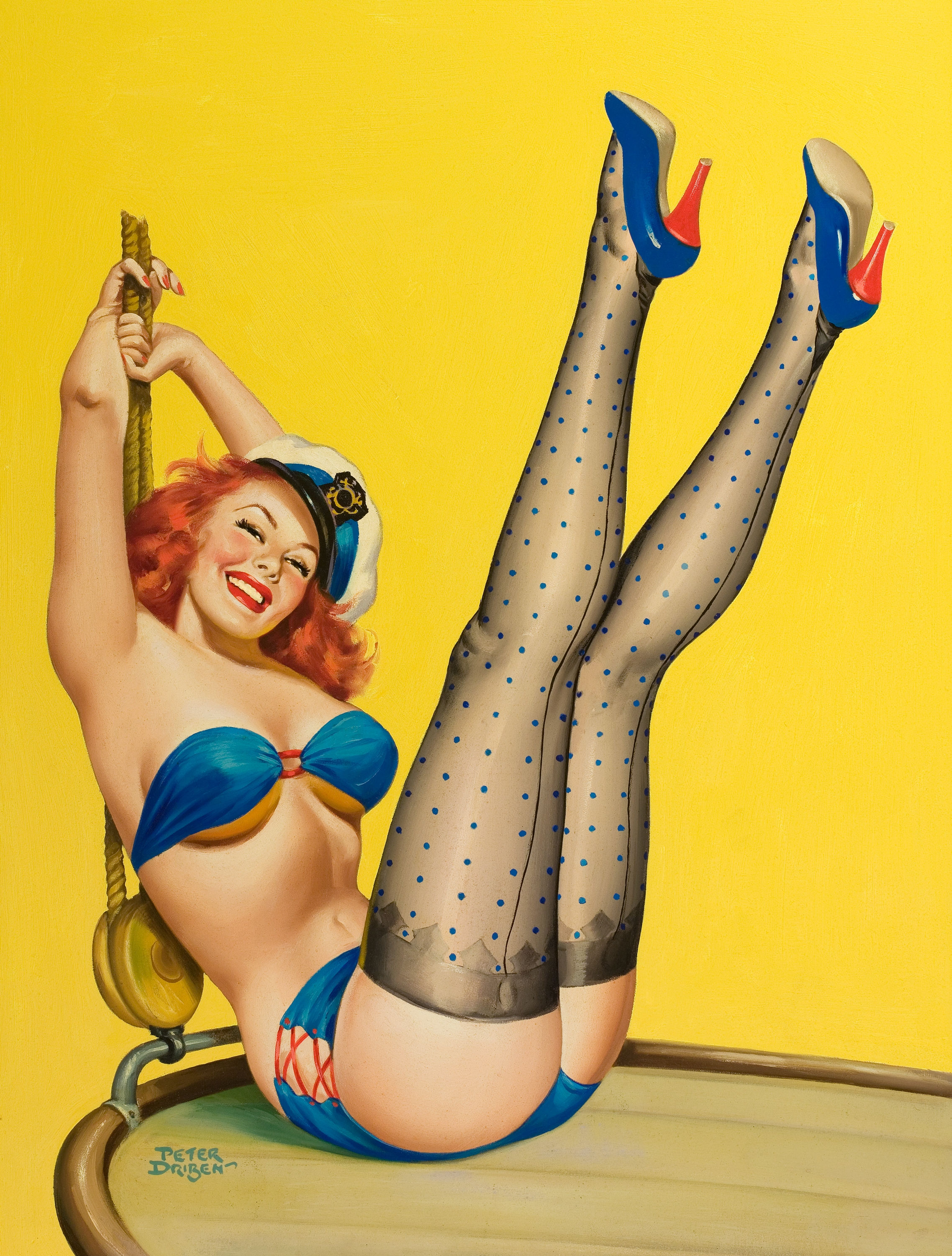 Flirt, pulp cover, April 1953 Oil on board 33 x 25 in. Signed lower left This painting was also reproduced as figure 292 in The Great American Pin-up by Charles G. Martignette and Louis K. Meisel, Taschen, 1996